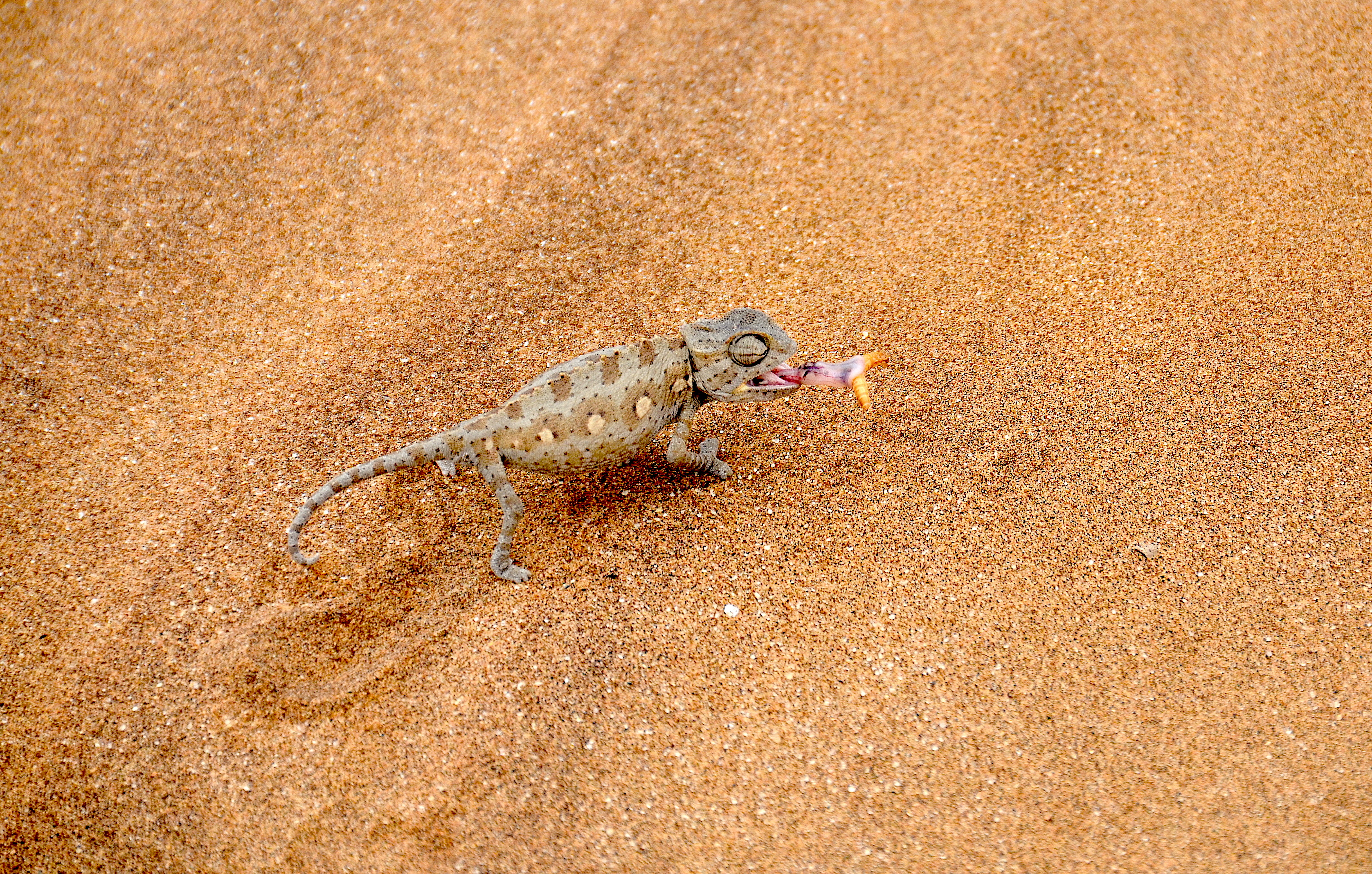 Namaqua chameleon with prey (Namibia)